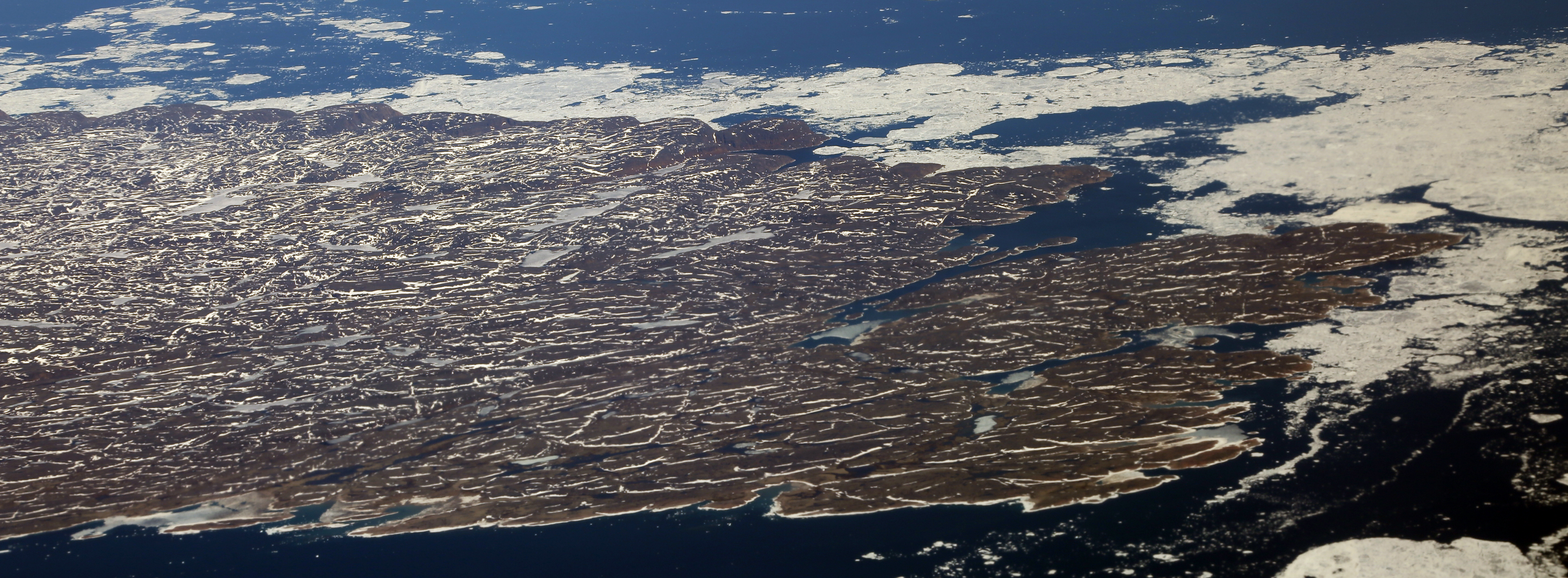 Nottingham Island, uninhabited in Qikiqtaaluk Region, Nunavut, Canada. Located in Hudson Strait, the entrance to Hudson Bay.